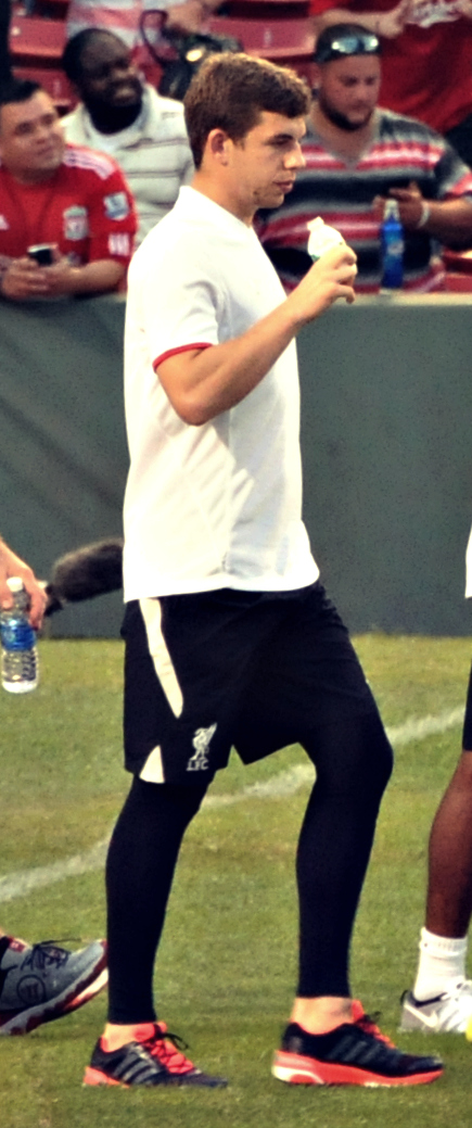 Liverpool FC v/s Roma @ Fenway Park (Boston, Massachusetts)